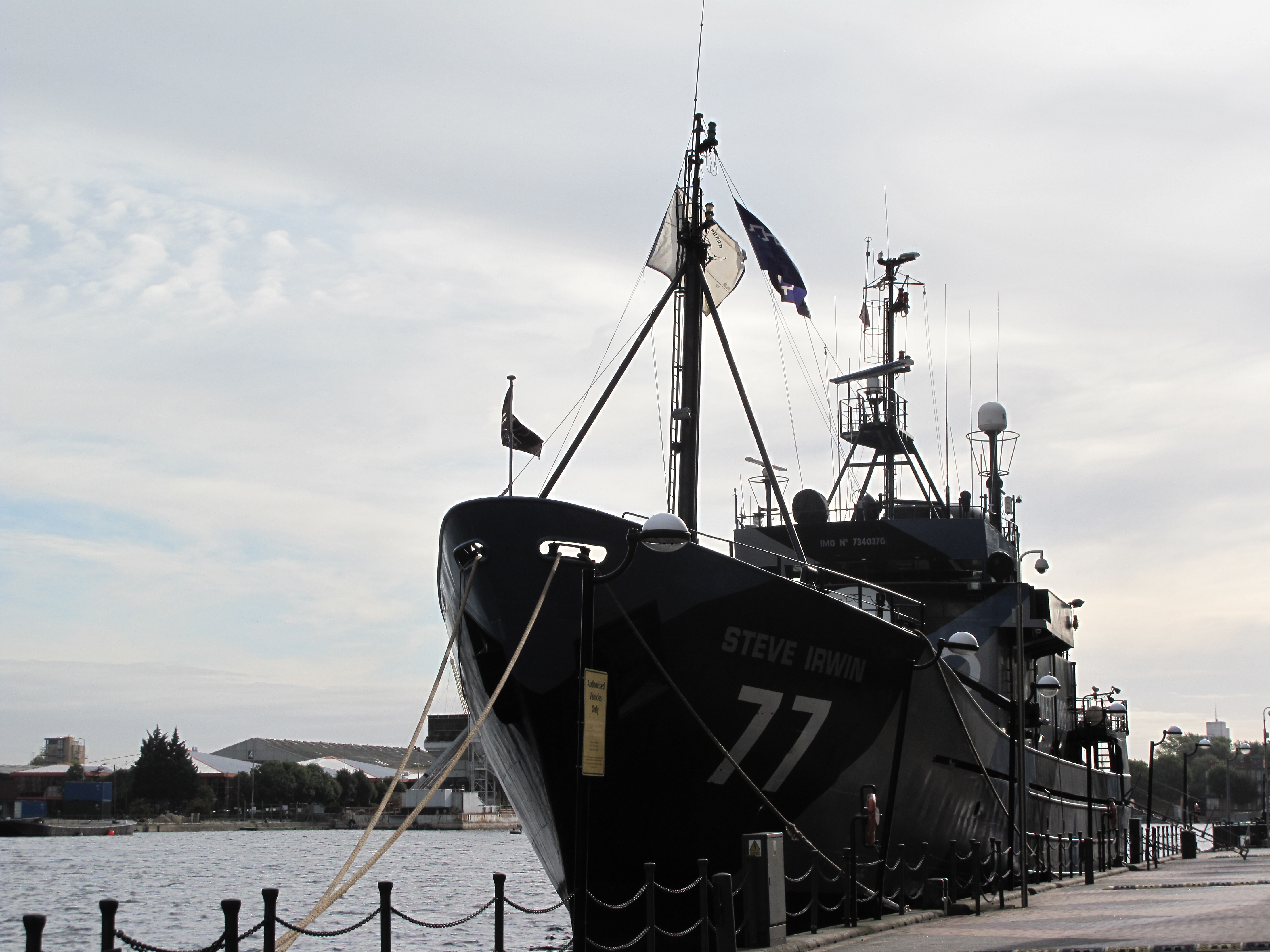 MY Steve Irwin-Sea Shepherd Conservation Society - Bow view